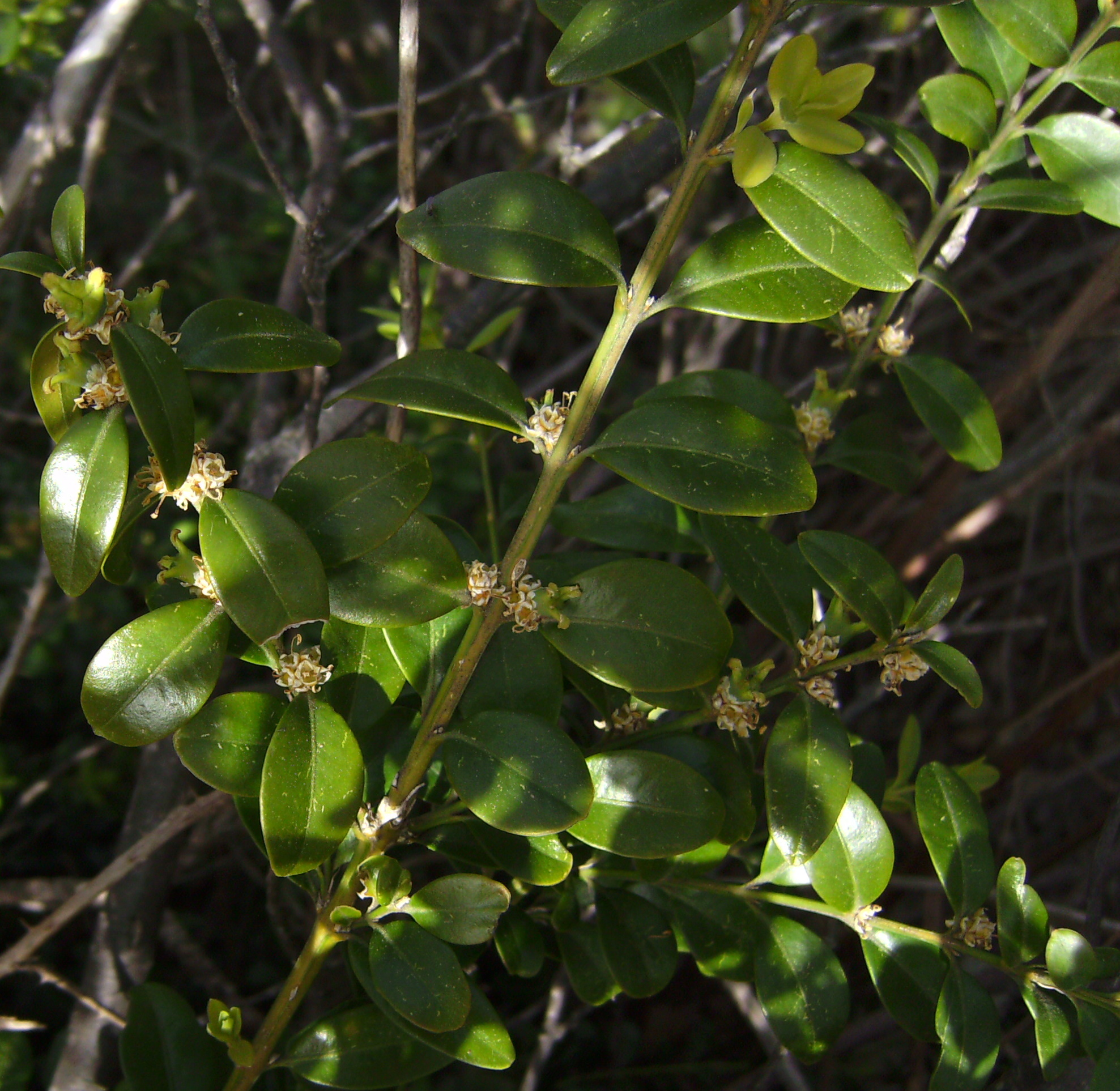 Buxus sempervirens shoot in anthesis ends, Castelltallat, Catalonia